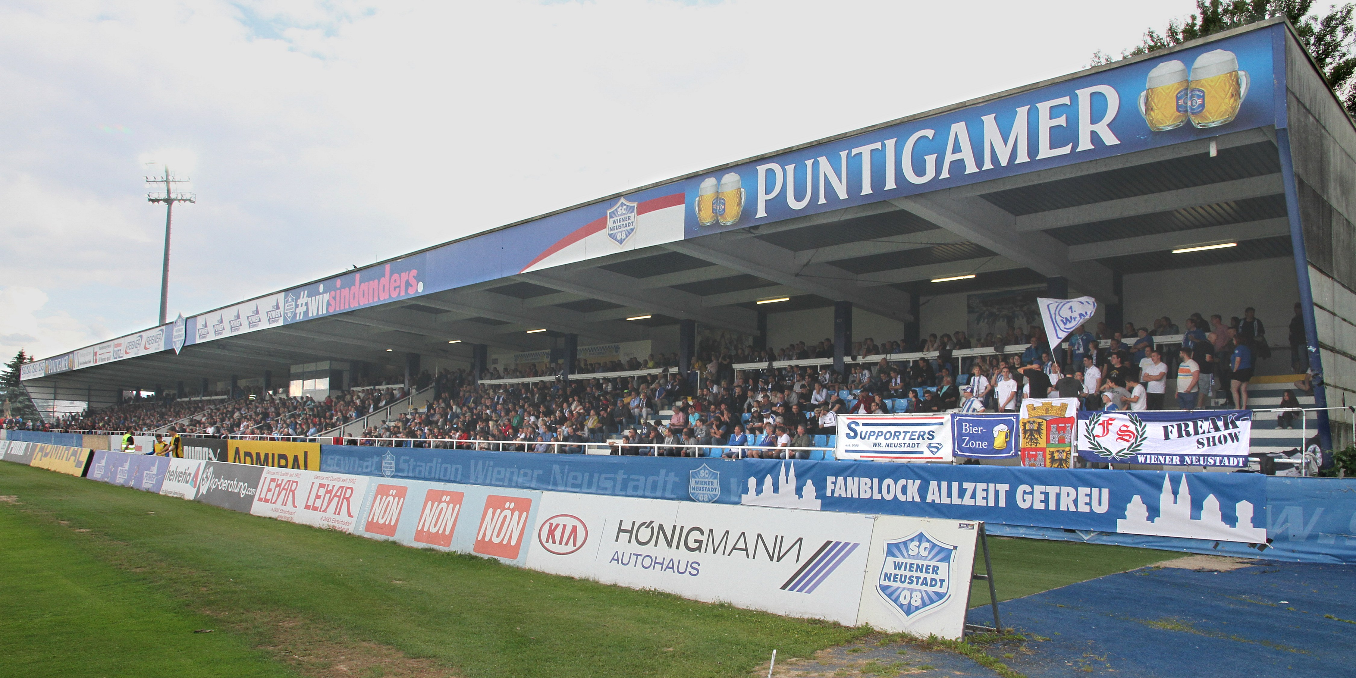 Football-championship Erste Liga 2017–18 - SC Wiener Neustadt (white shirts) vs. FC Wacker Innsbruck (black-green shirts) 1-0. – The photo shows das Wiener Neustädter Stadion. the stadium Wiener Neustadt.